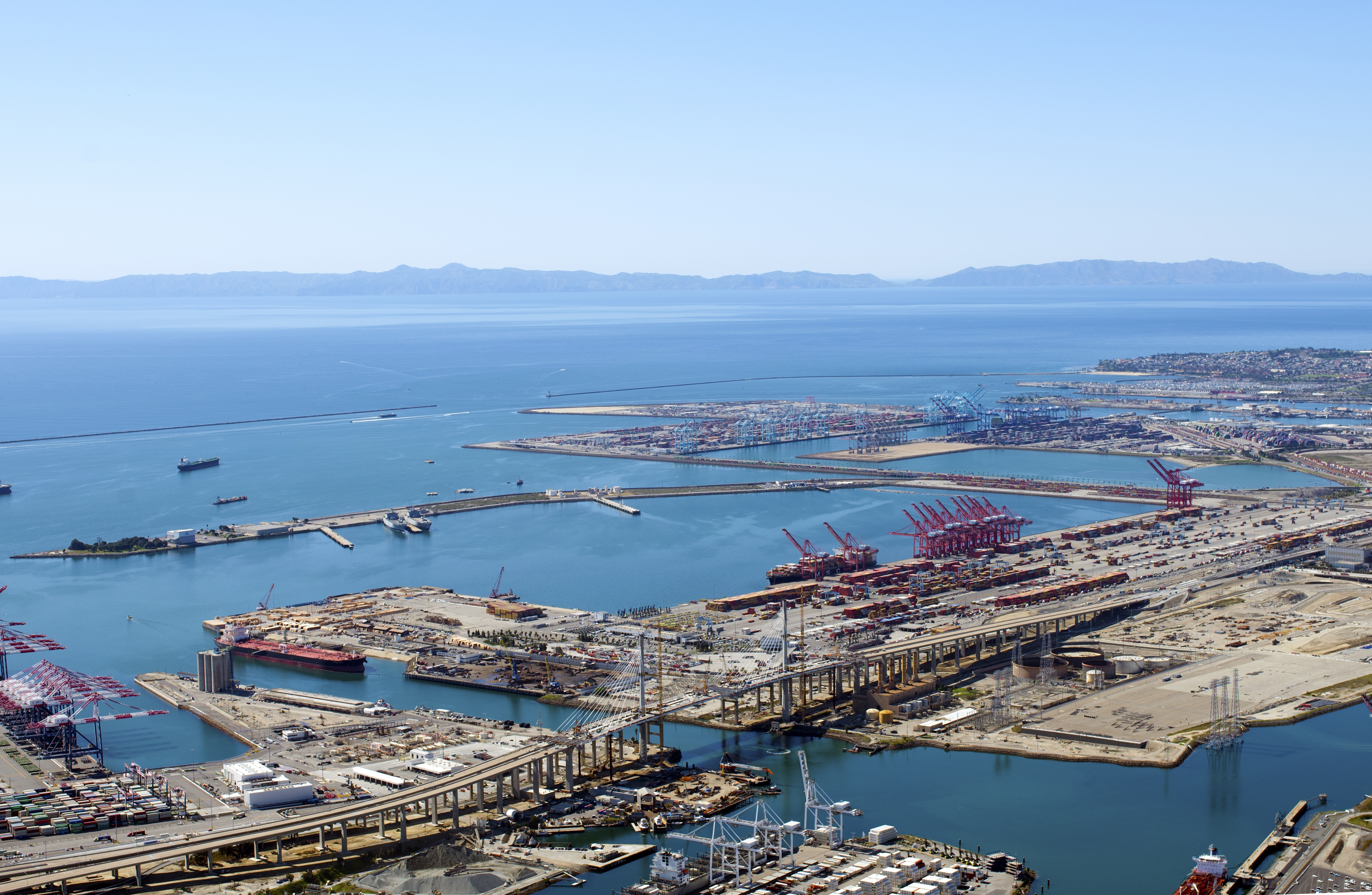 Port of Long Beach by Don Ramey Logan